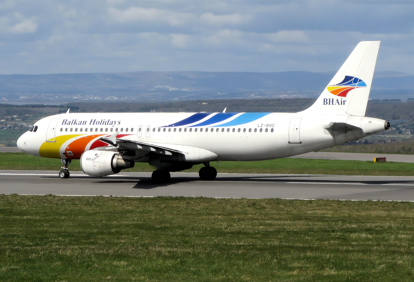 BH Air Airbus A320-200 (LZ-BHC) taxis to the takeoff point at Bristol International Airport, England. Taken by Adrian Pingstone in April 2008 and released to the public domain.